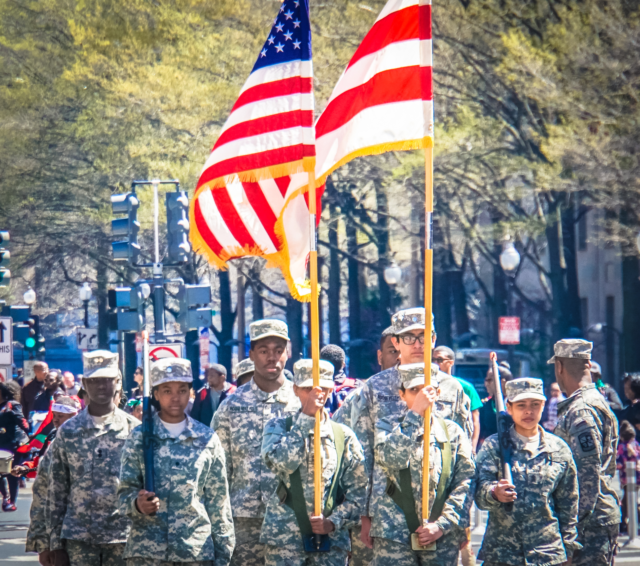 The DC Compensated Emancipation Act of 1862 ended slavery in Washington, DC, freed 3,100 individuals, reimbursed those who had legally owned them and offered the newly freed women and men money to emigrate. It is this legislation, and the courage and struggle of those who fought to make it a reality, that we commemorate every April 16, DC Emancipation Day. In 2017, Emancipation Day is celebrated one week early.